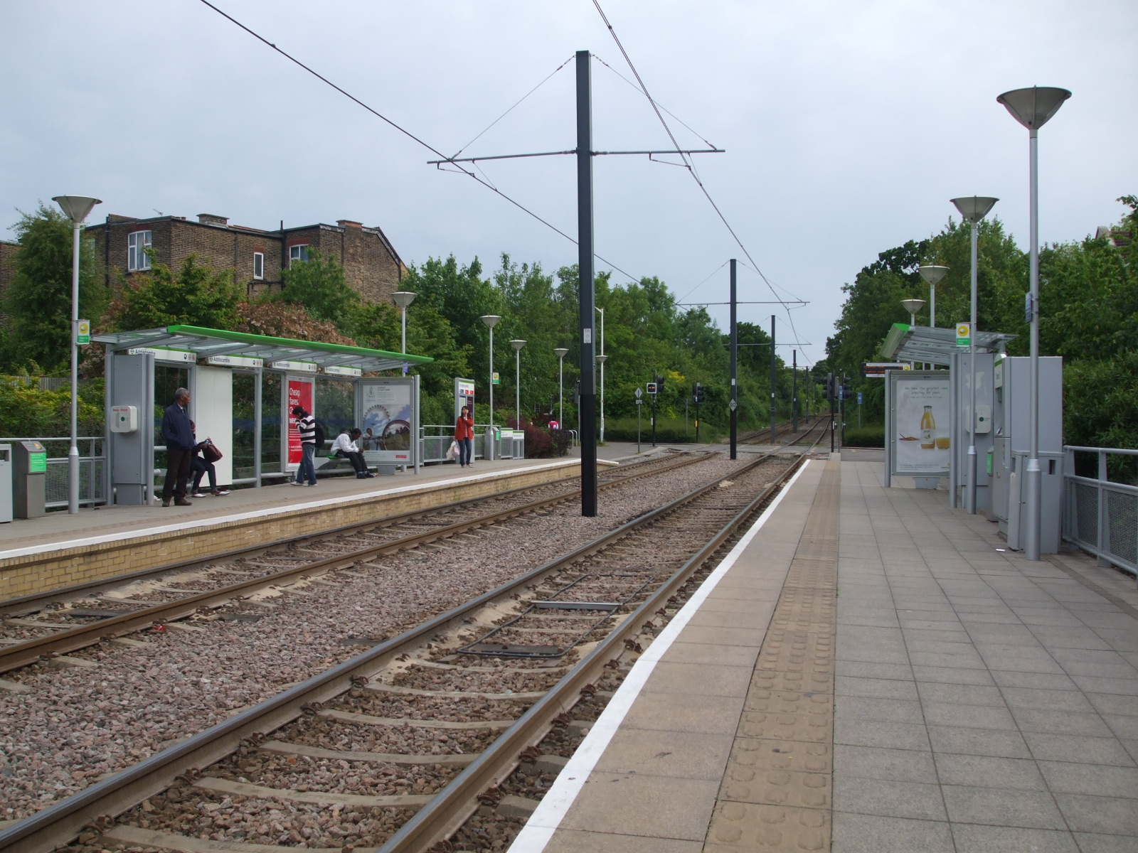 Addiscombe tram stop looking south